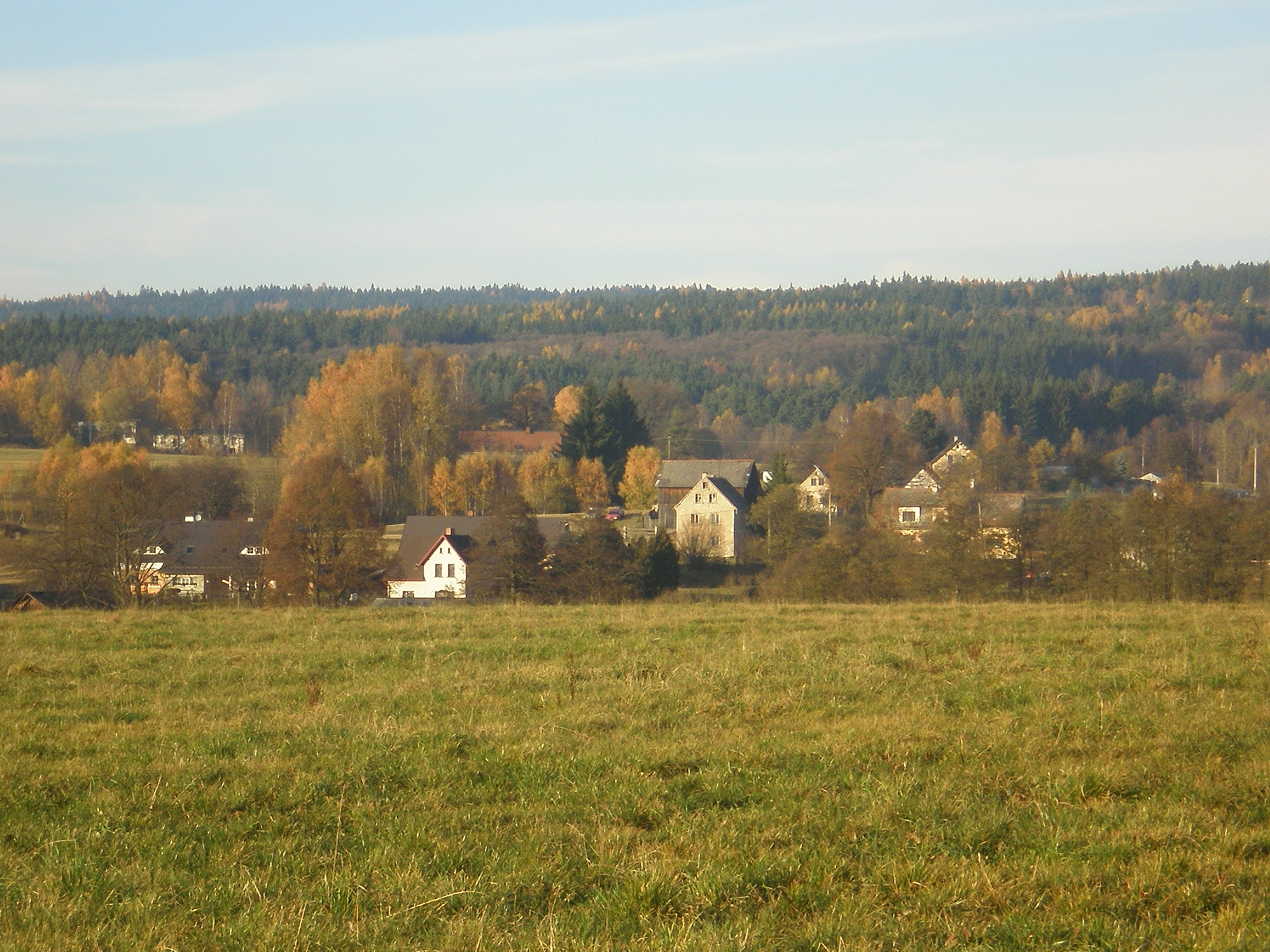 Village of Lipná (Hazlov), Cheb District, Czech Republic.